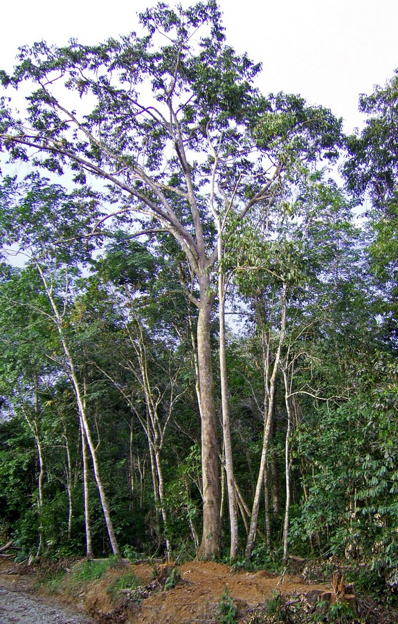 Tengkawang tree (Shorea sp.), from Sungai Utik, Kapuas Hulu, West Kalimantan, Indonesia